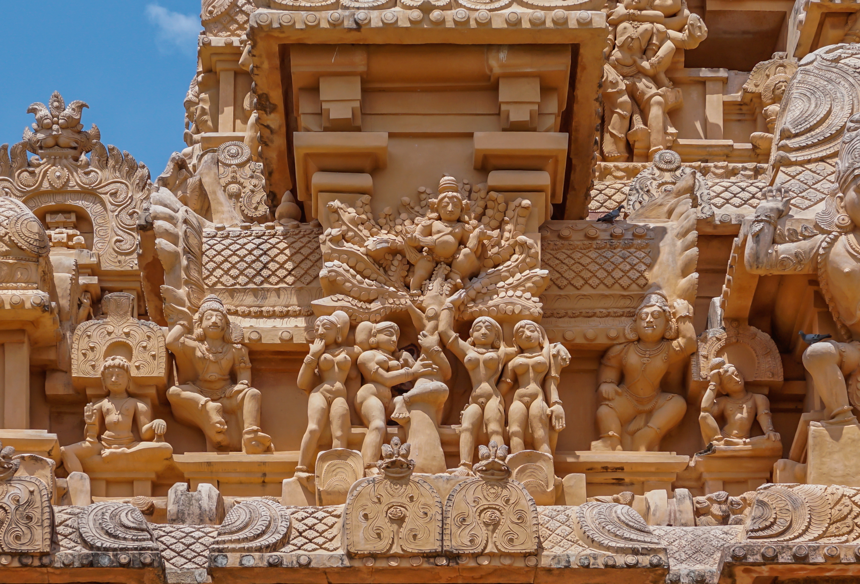 Sculptures on the entrance building of the Brihadeeswarar Temple, Thanjavur, India